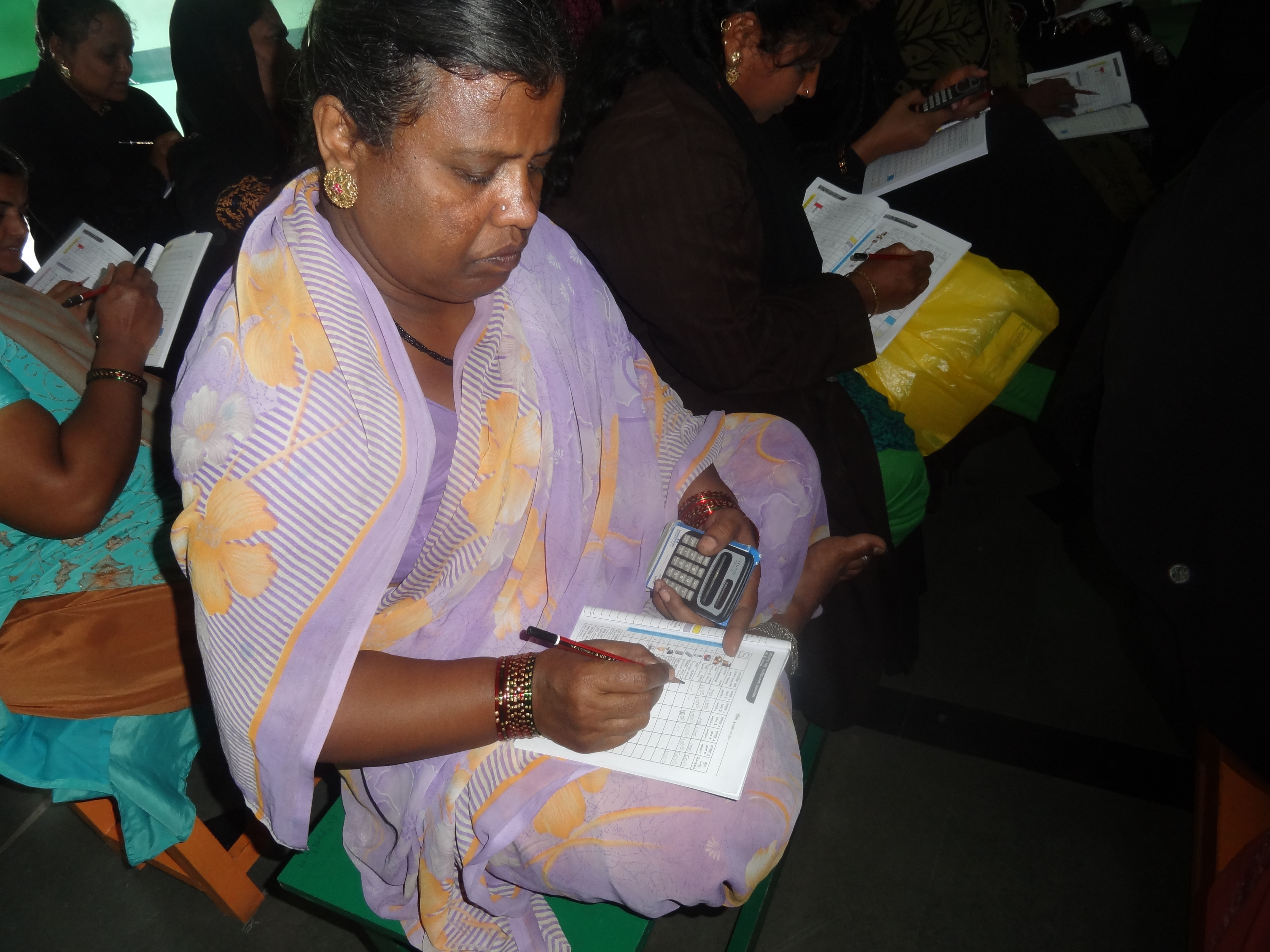 Parinaam's financial literacy program